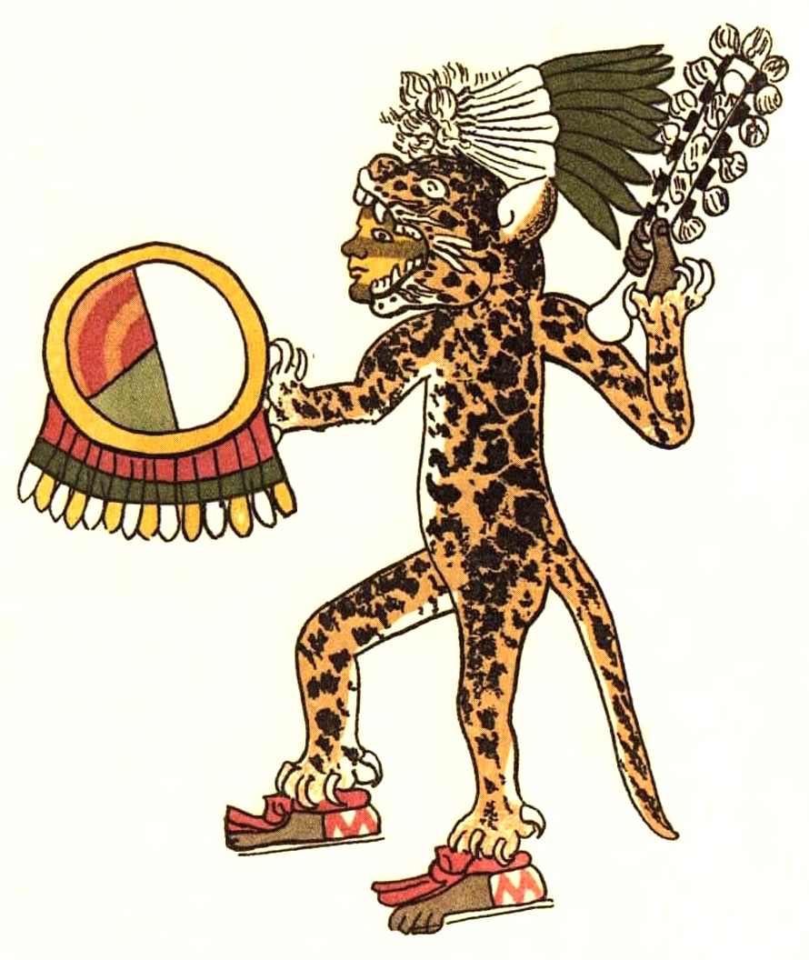 Aztec jaguar warrior, tlahuahuanque of the ritual sacrificial combat named sacrificio gladiatorio in spanish and tlahuahuanaliztli o tlauauaniliztli in nahuatl, as portrayed in the folio 30r of the Codex Magliabechiano.